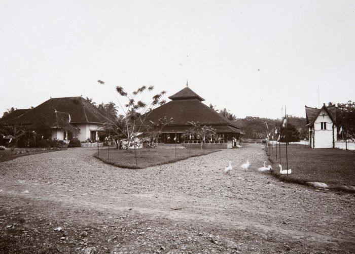 The house of the 'Regent'